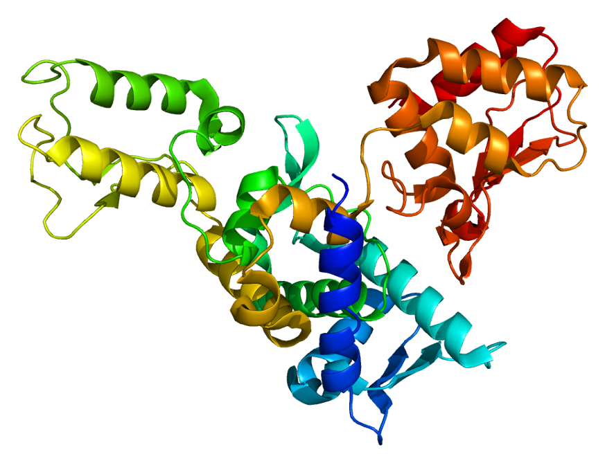 Structure of the SMURF2 protein. Based on PyMOL rendering of PDB 1zvd.